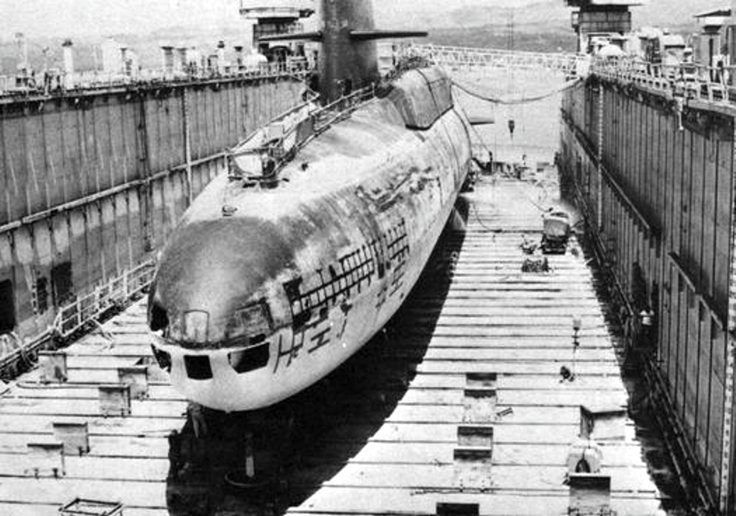 The U.S. Navy ballistic missile submarie USS George Washington (SSBN-598) in a floating dry dock at Pearl Harbor, Hawaii (USA), circa in 1973. She was repainted.